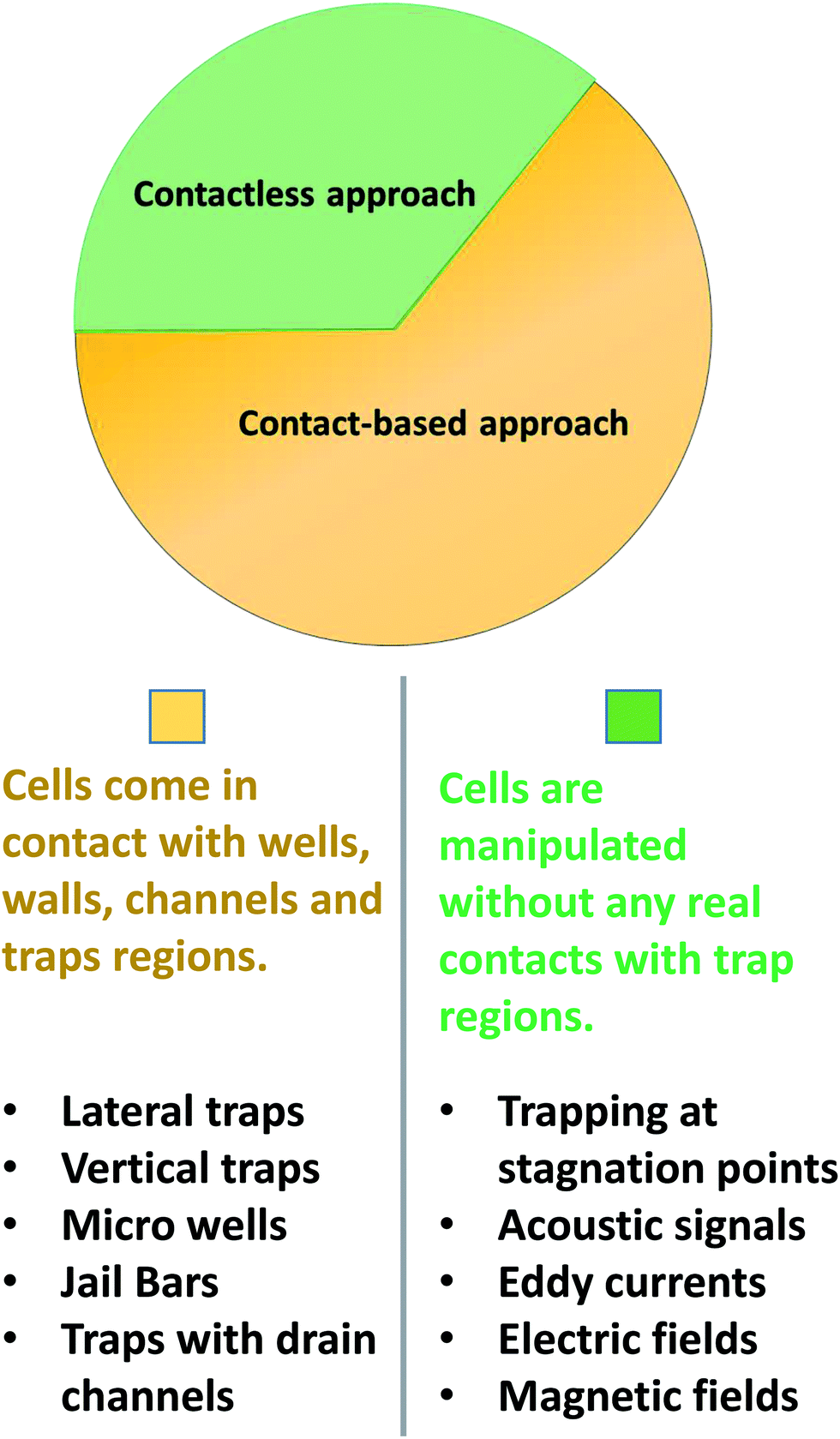 Classification of approaches in hydrodynamic trapping. The pie chart area approximates the number of articles in the respective classifications.